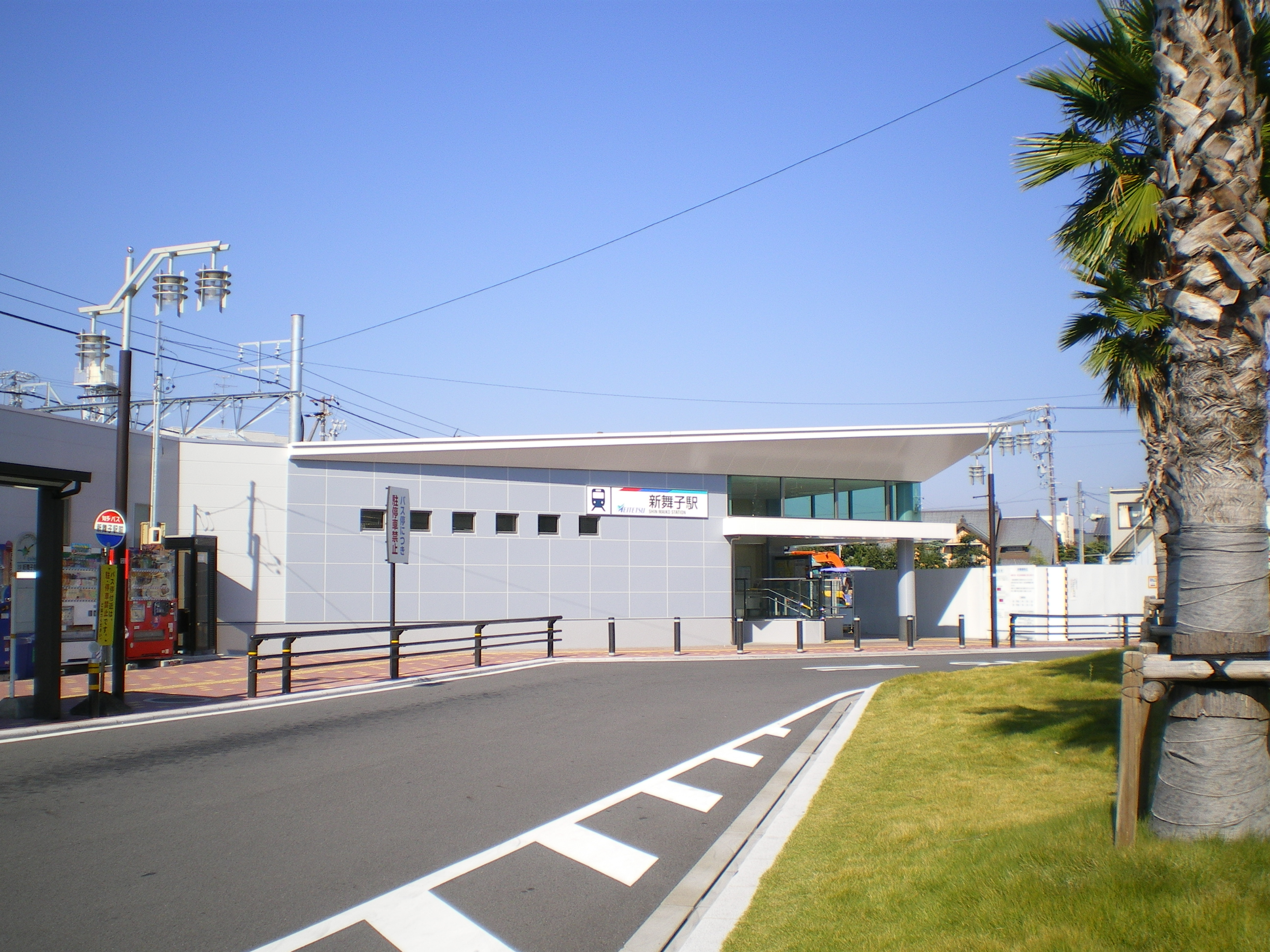 Nagoya Railroad Tokoname Line Shin Maiko Station East Gate (this is new building. old building is here)